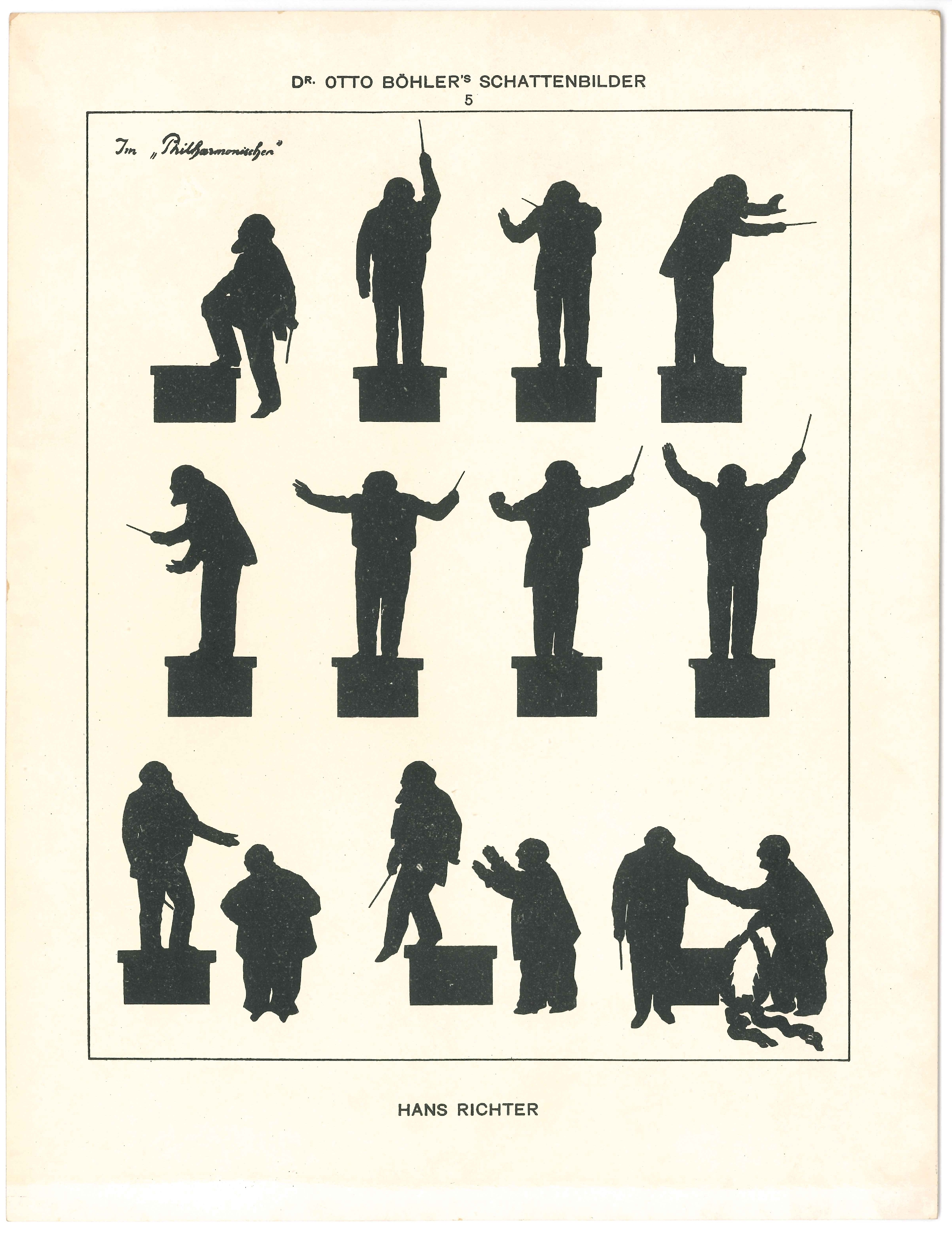 Hans Richter (conductor, 1843–1916), silhouette 20 x 26 cm; photo of Böhler´s silhouette printed on thick card